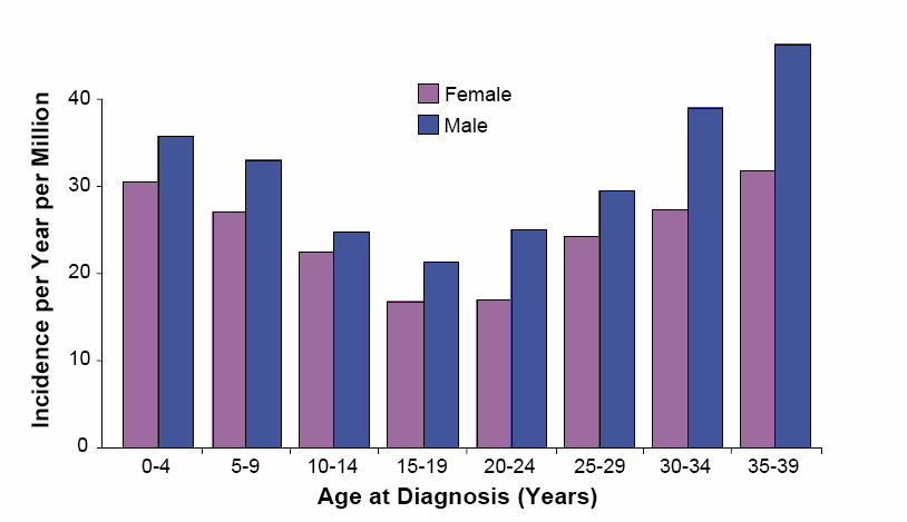 Figure 6.4: Incidence of CNS Tumors (ICCC) by Gender, U.S., SEER 1975-1998